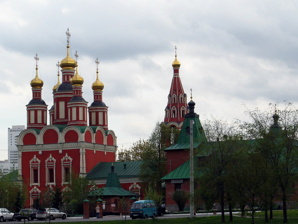 Church of Archangel Michael in Troparyovo, Moscow, 1693